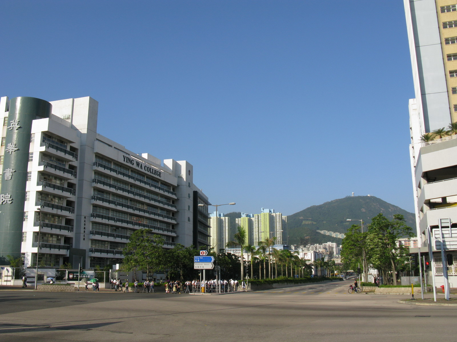 Tonkin Street West near Sham Mong Road